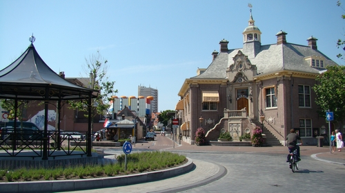 townhall Zandvoort